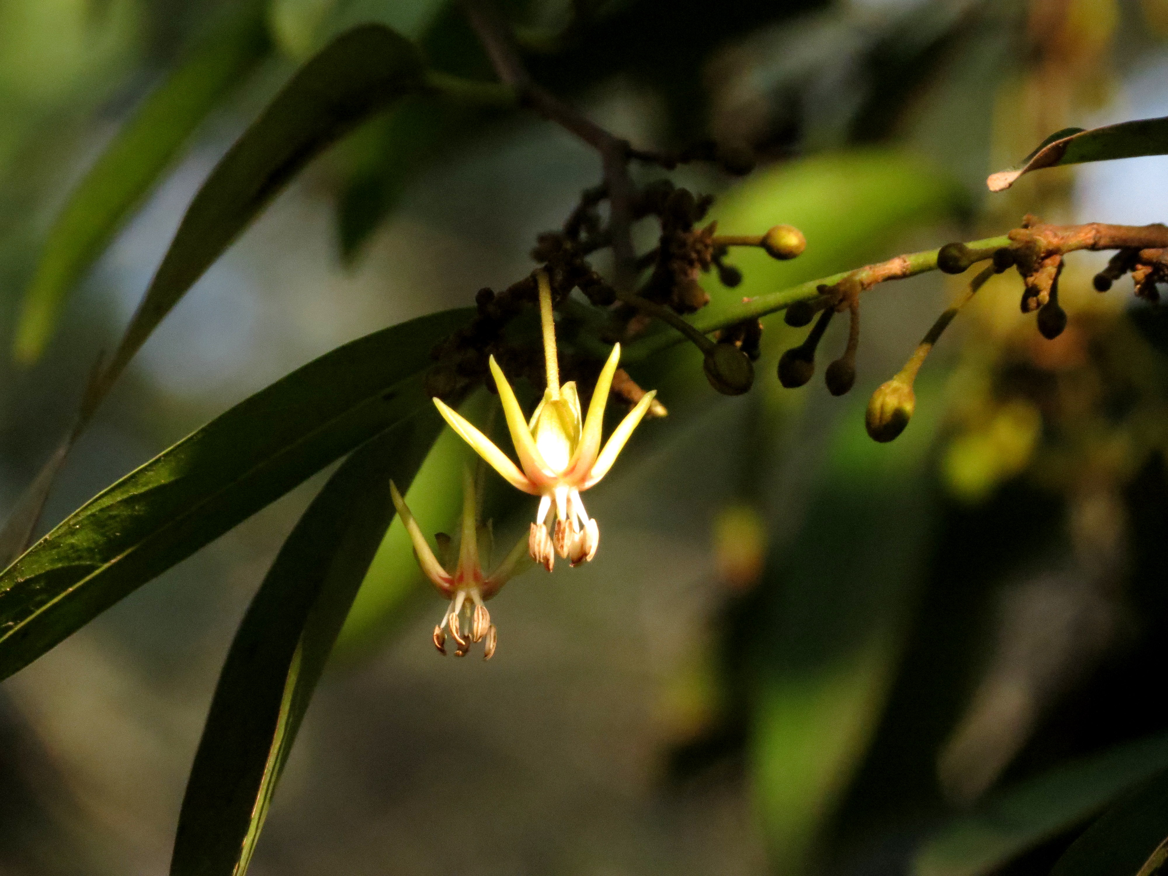 Hydnocarpus alpina flower seen in Lalbagh botanical garden Bengaluru